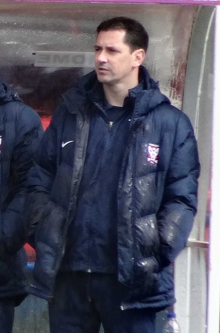 Jackie McNamara during York City's match against Bristol Rovers at Bootham Crescent, York on 30 April 2016